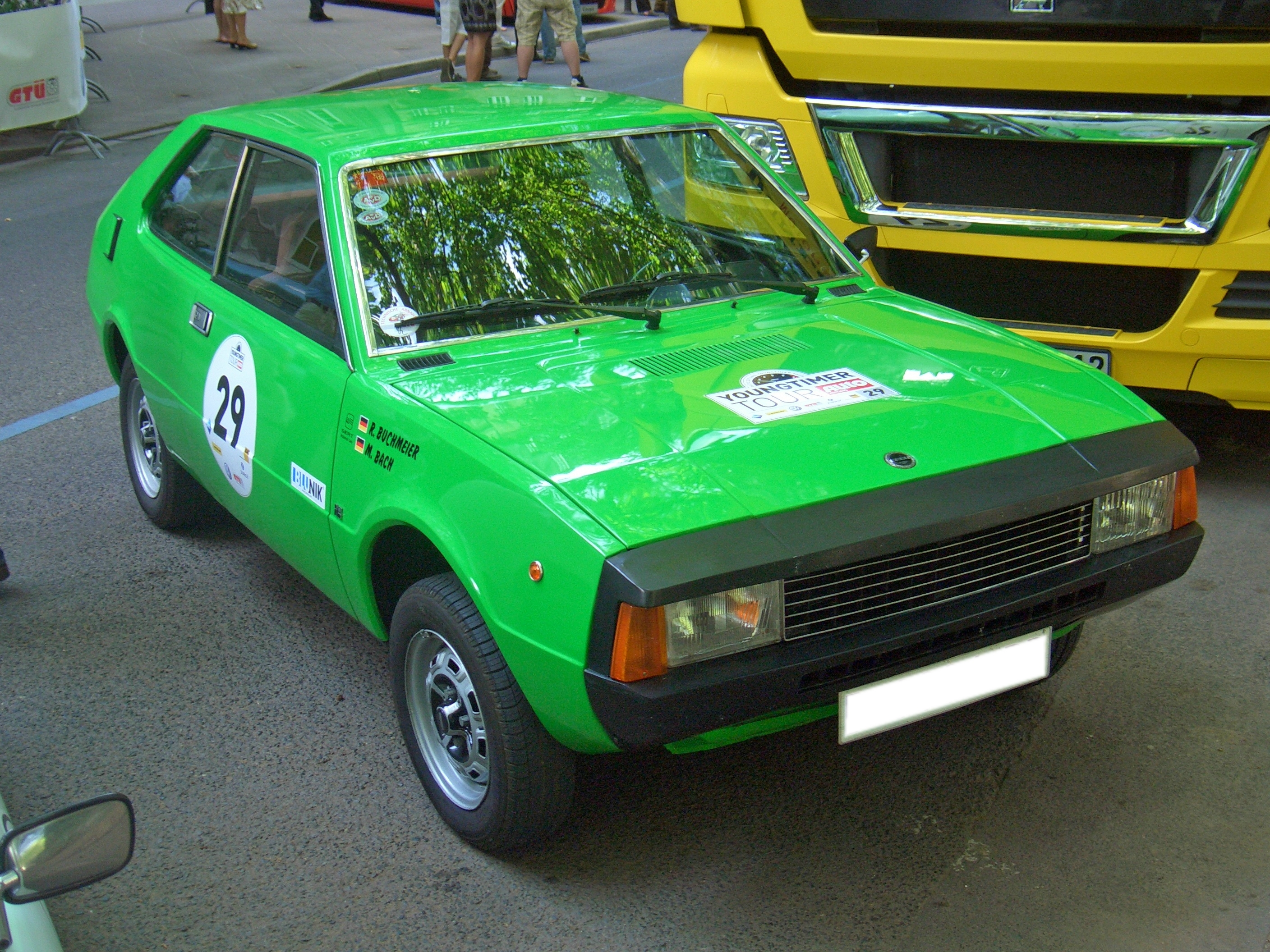 Seat 1200 Sport Coupe, seen at AUTO ZEITUNG Youngtimer Tour 2011, finish at Königsallee, Düsseldorf